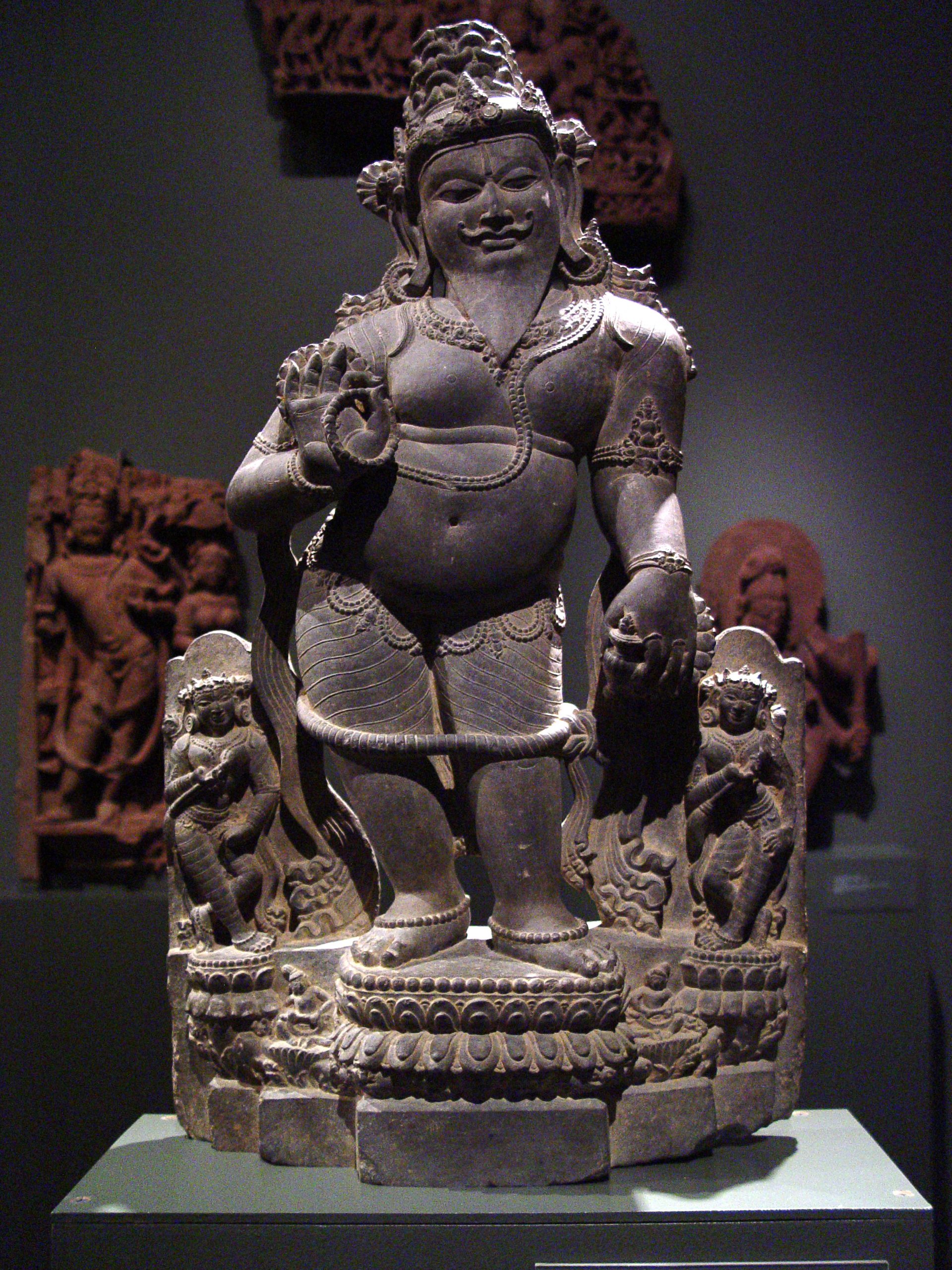 India, Bihar, Lakhi Sarai, South Asia The Maharishi (Great Sage) Agastya, 12th century Sculpture; Stone, Chloritoid phyllite, 26 3/4 x 14 1/4 x 4 3/4 in. (67.95 x 36.2 x 12.07 cm) Gift of the 2005 Collectors Committee (M.2005.30) Wikipedia Loves Art at the Los Angeles County Museum of Art This photo of item # M.2005.30 at the Los Angeles County Museum of Art was contributed under the team name "team_a" as part of the Wikipedia Loves Art project in February 2009. Los Angeles County Museum of Art The original photograph on Flickr was taken by howcheng—please add a comment to the original Flickr page whenever a use has been made on Wikipedia or another project. Project galleries on Flickr: this institution, this team